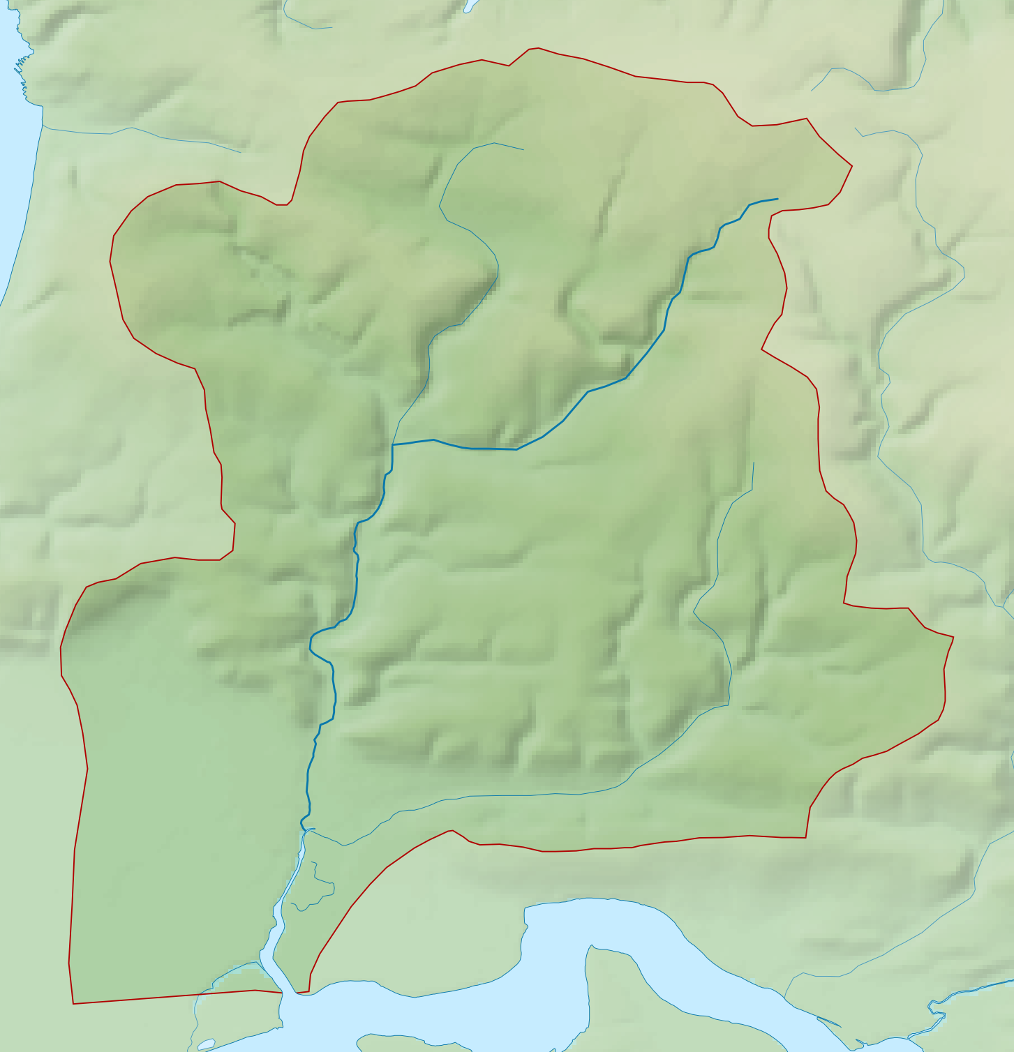 Map of the River Caen and its catchment in Devon, UK.